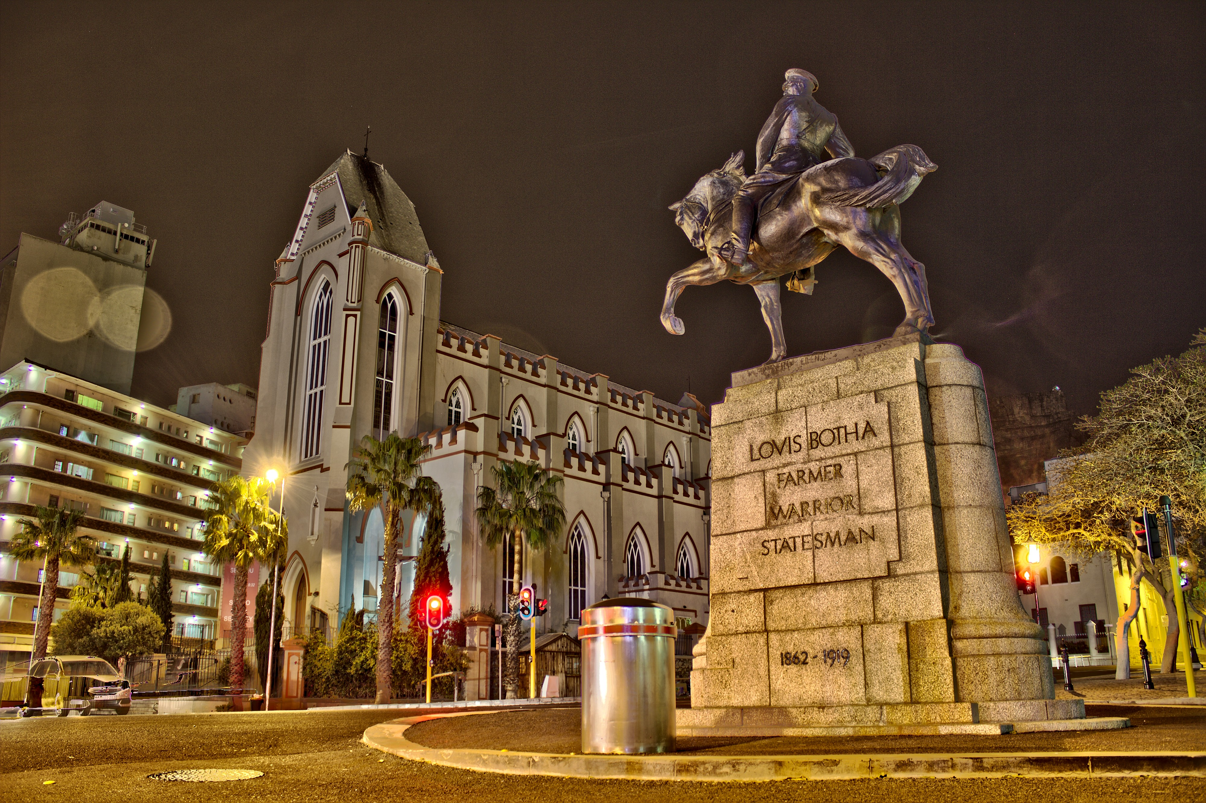 The Statue of Louis Botha outside the Houses of Parliament in Cape Town - Saint Johns Street and Roeland Street